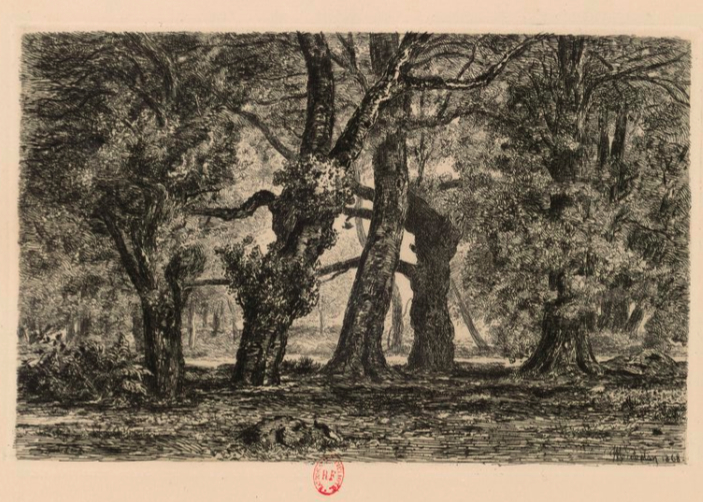 Souvenir du Bas-Bréau, acquaforta for a peom of André Theuriet, printed and published in Sonnets et eaux-fortes in december 1868.